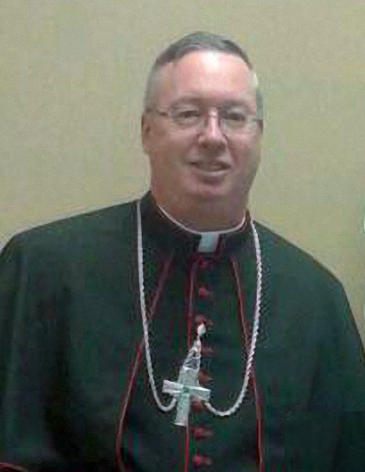 Most Rev Christopher Coyne stands with a student during St. Mary's Catholic School's dedication ceremony in September, 2012.